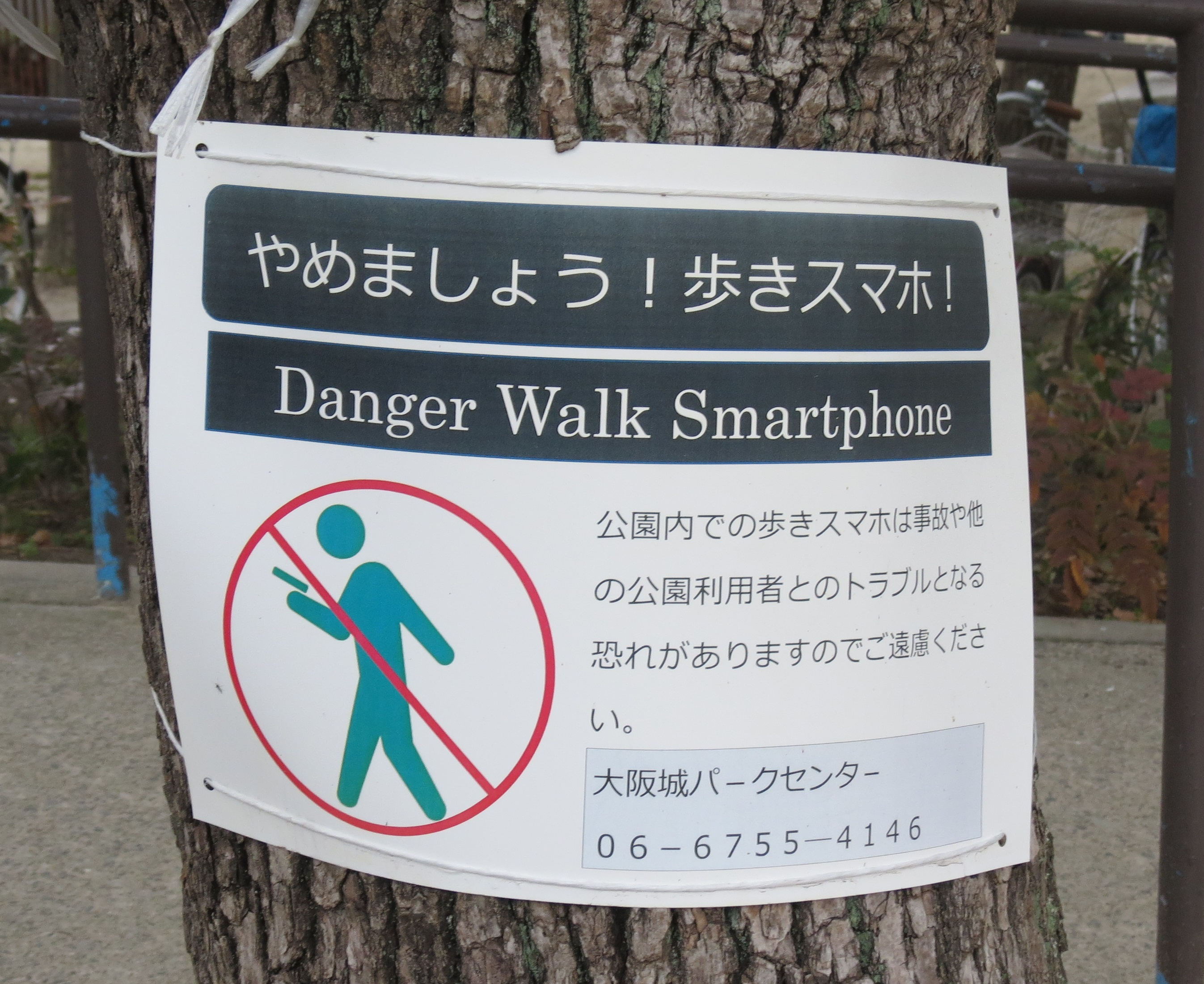 "Smartphone zombie" or "smombie" sign in Osaka, Japan, in March 2017